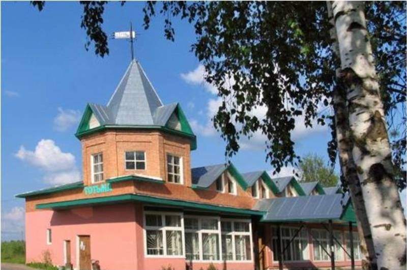 Bus station in Totma